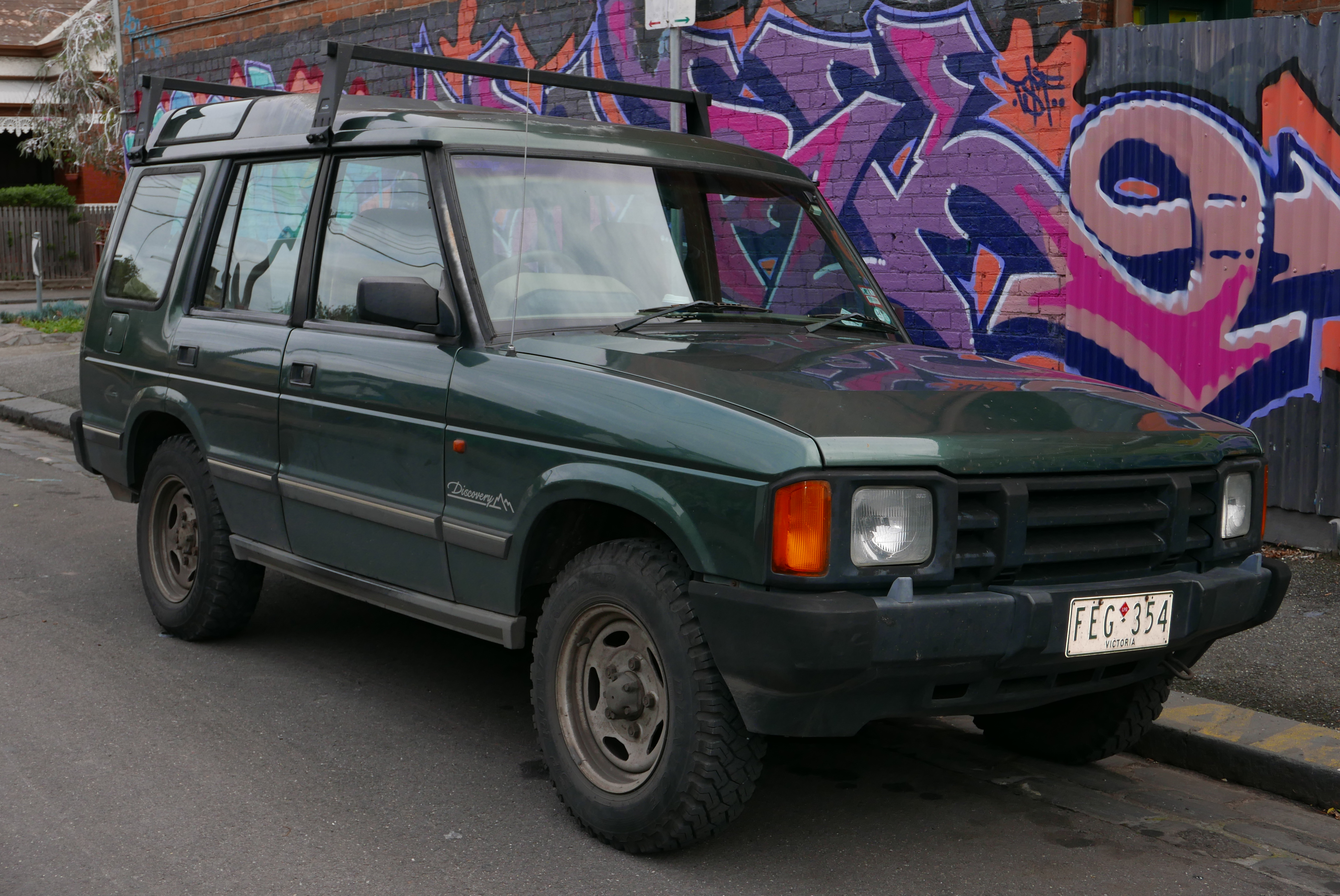 1993 Land Rover Discovery V8i 5-door wagon. Photographed in Fitzroy, Victoria, Australia. Vehicle registration enquiry results Jurisdiction Victoria Registration FEG354 Chassis code SALLJGML3KA045524 Engine code 23D06670D Compliance date 1993-03 Year of manufacture 1993